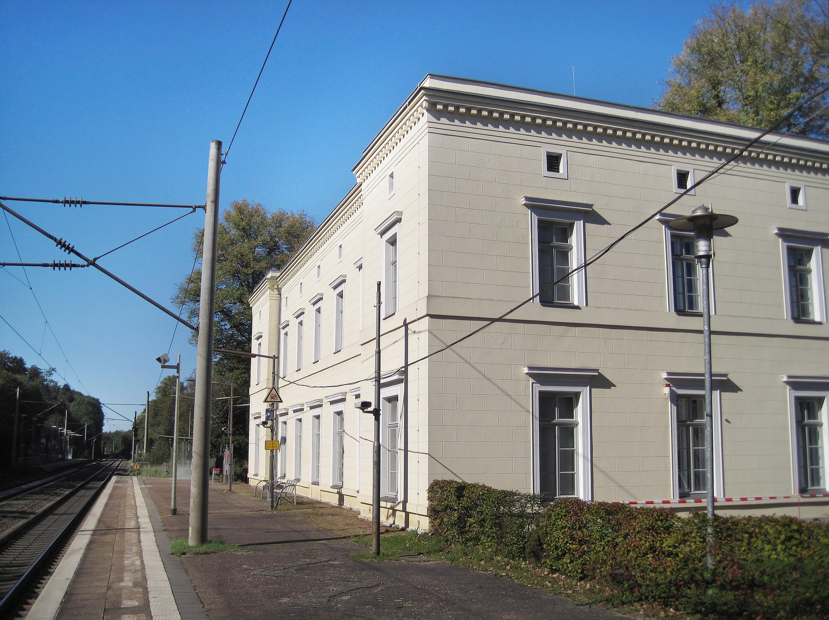 Train station in Friedrichsruh from the east.